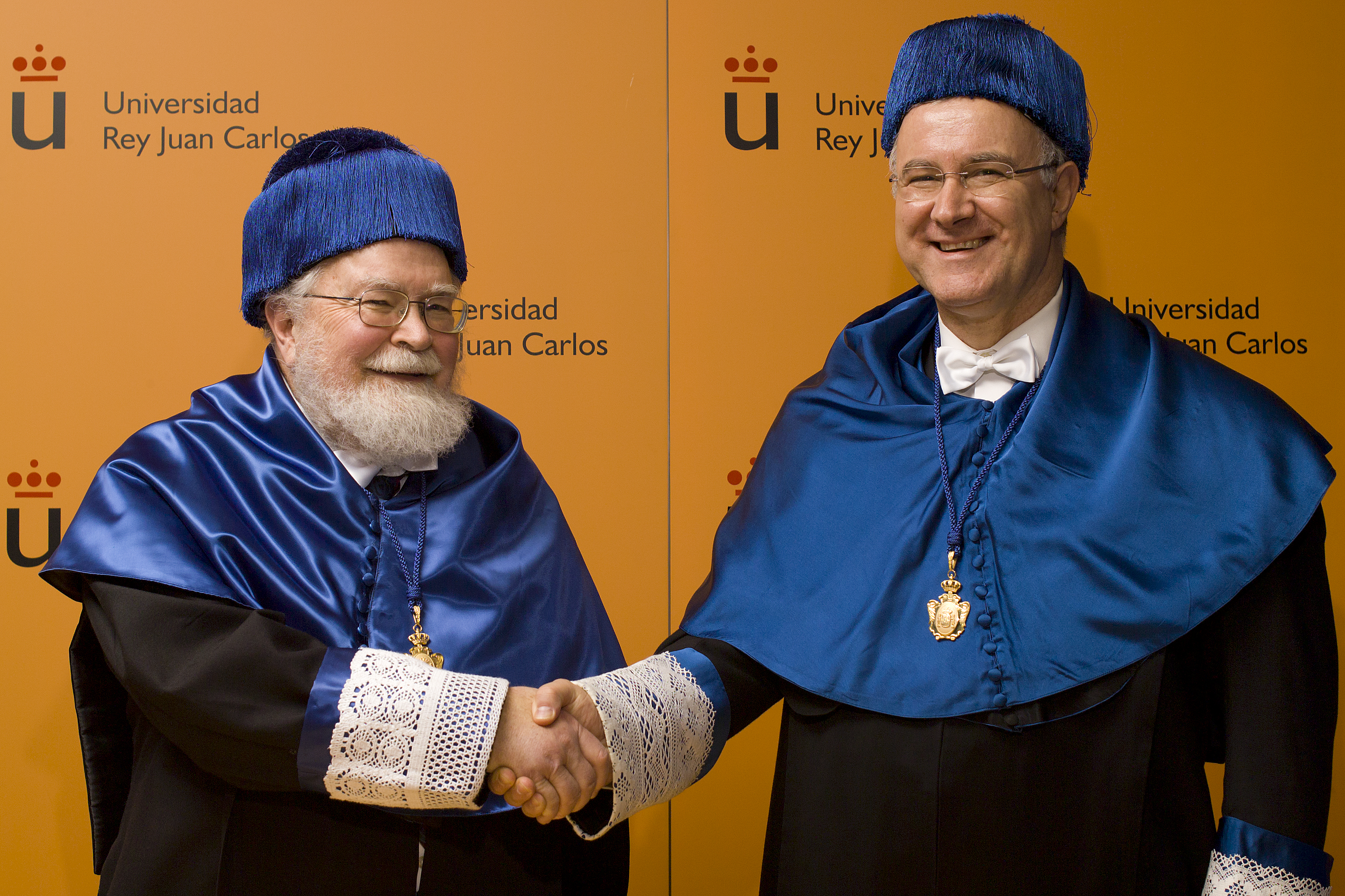 Two Chaos theorists: James A. Yorke (left, mathematician) and Miguel Ángel Fernández Sanjuán (physicist). Universidad Rey Juan Carlos, URJC, Spain (King Juan Carlos University).